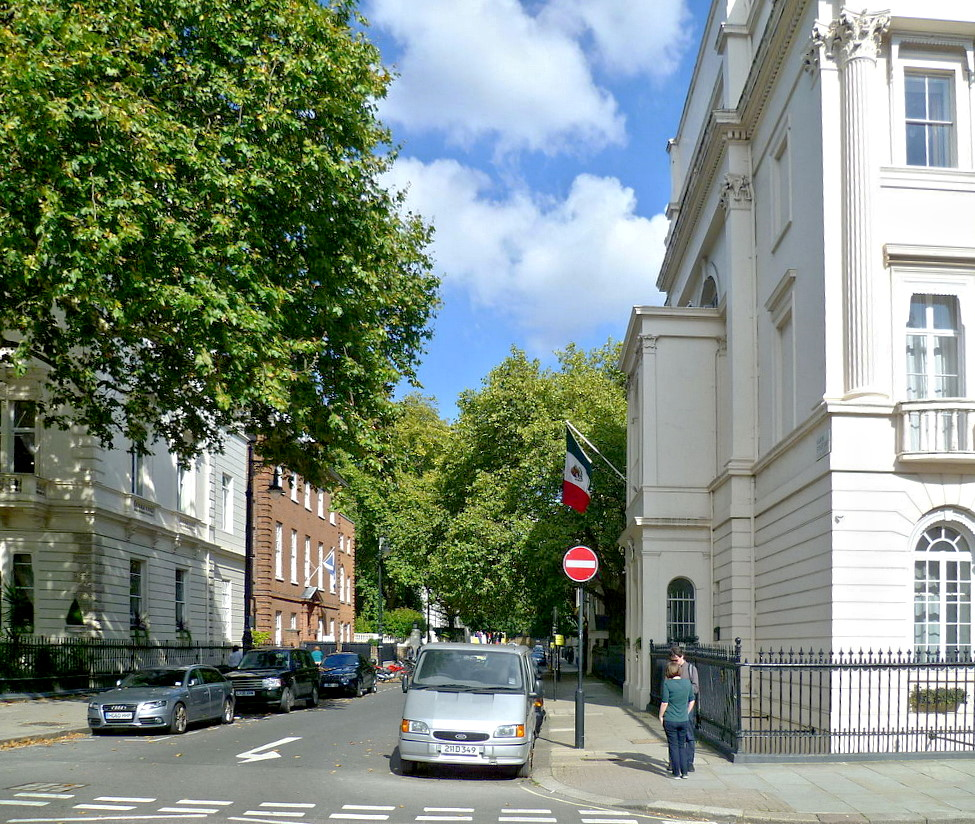 Annexe of the Mexican embassy in Halkin Street